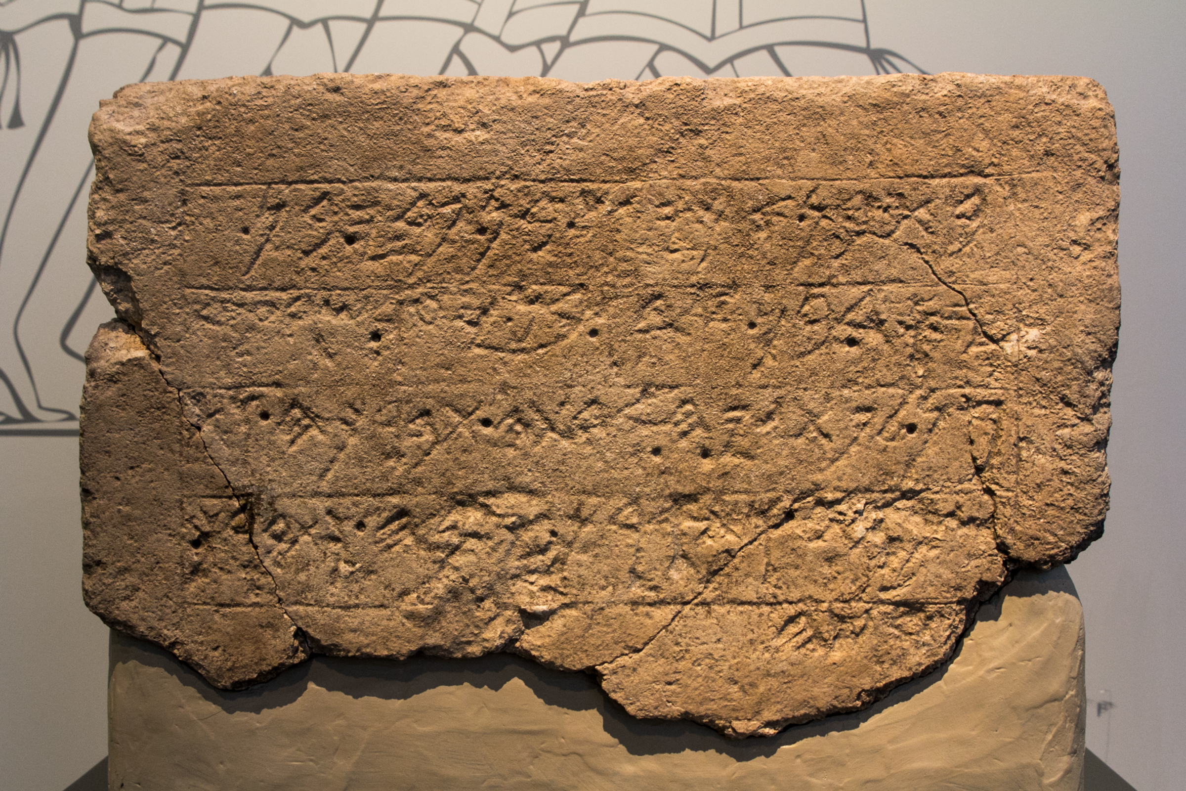 Royal dedicatory inscription from the Philistine city of Ekron. On display at the Israel Museum in Jerusalem